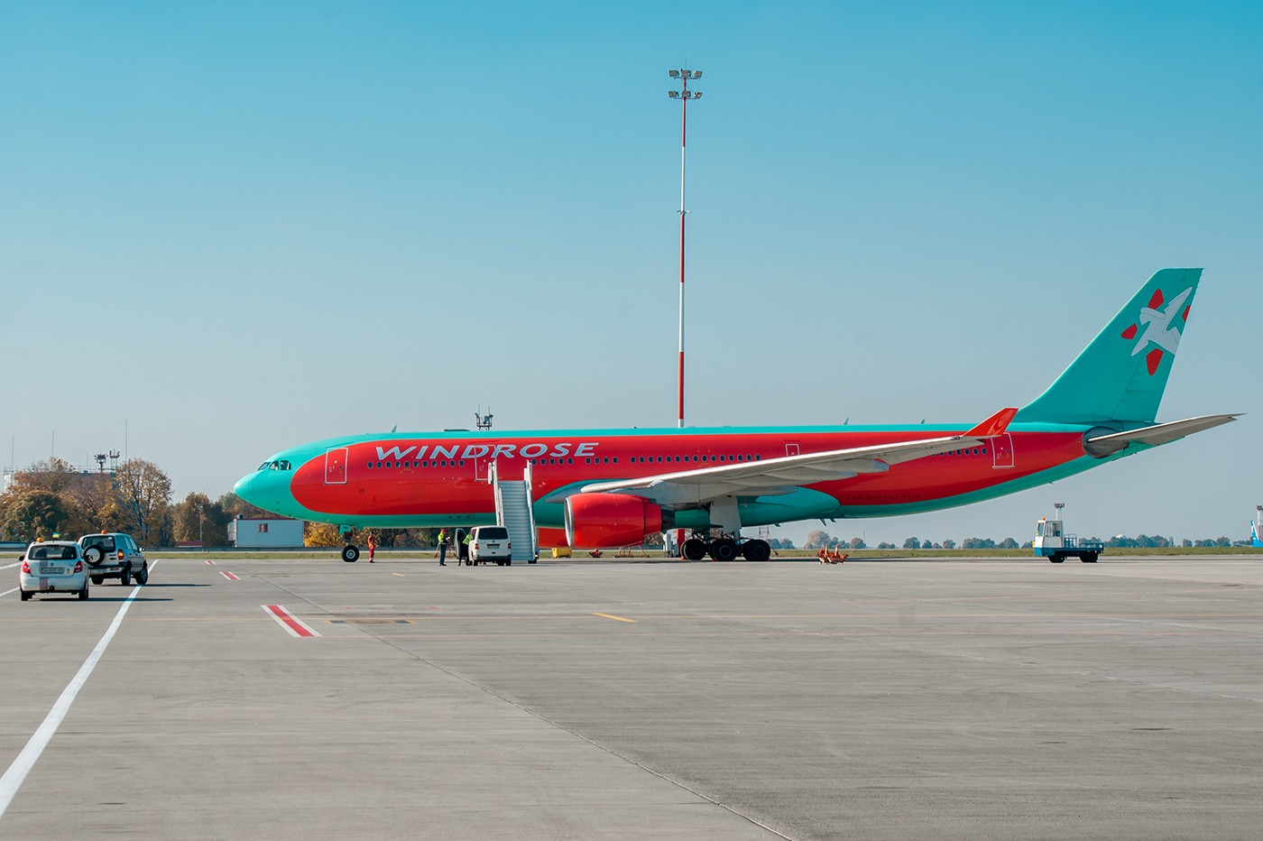 WindRose Airbus A330-300 at KBP